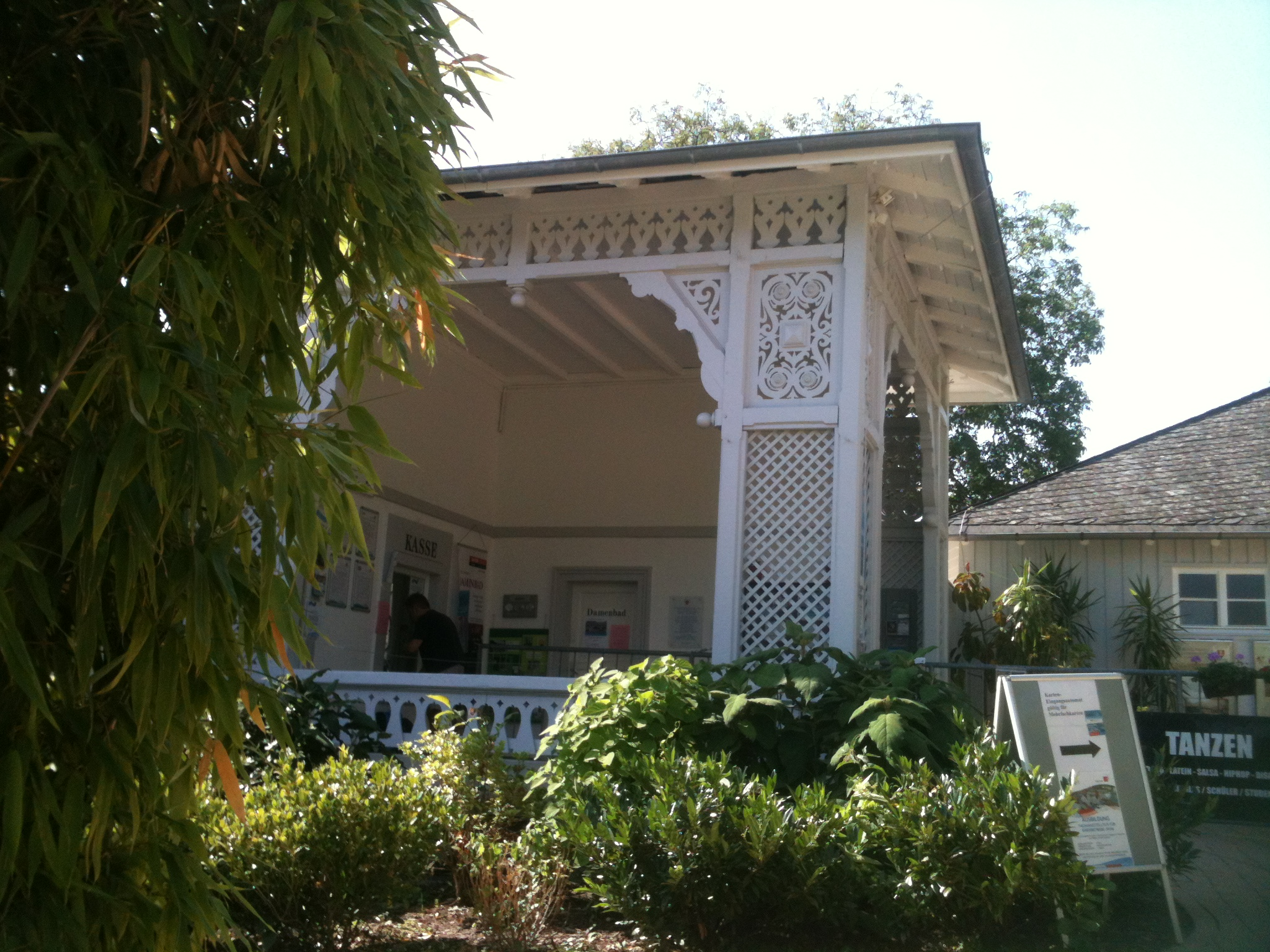 Entrance area for the Lorettobad in Freiburg i.Br.; at the back the door to the Damenbad (ladies' pool) visible